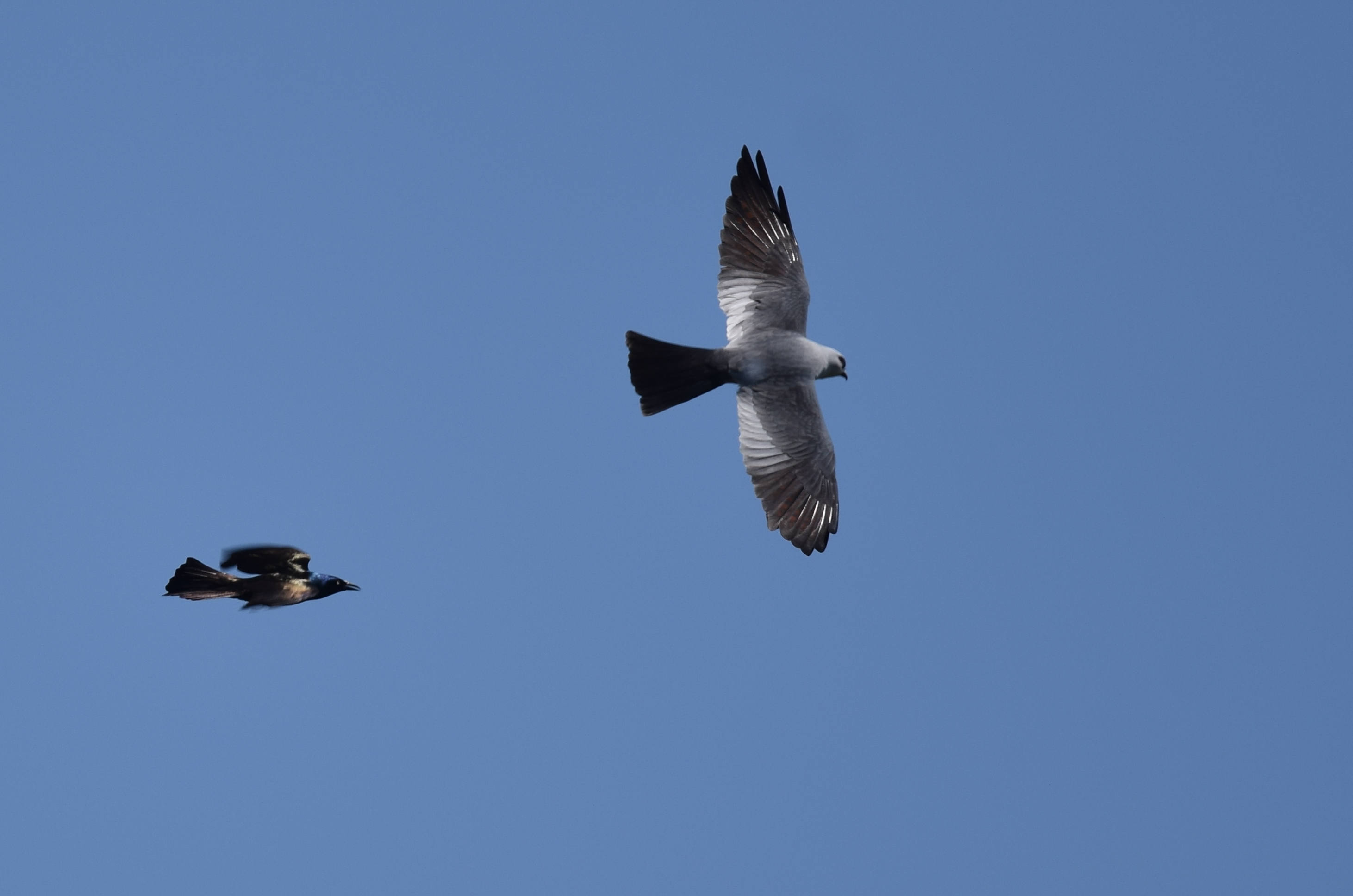 Mississippi Kite chased by a Grackle